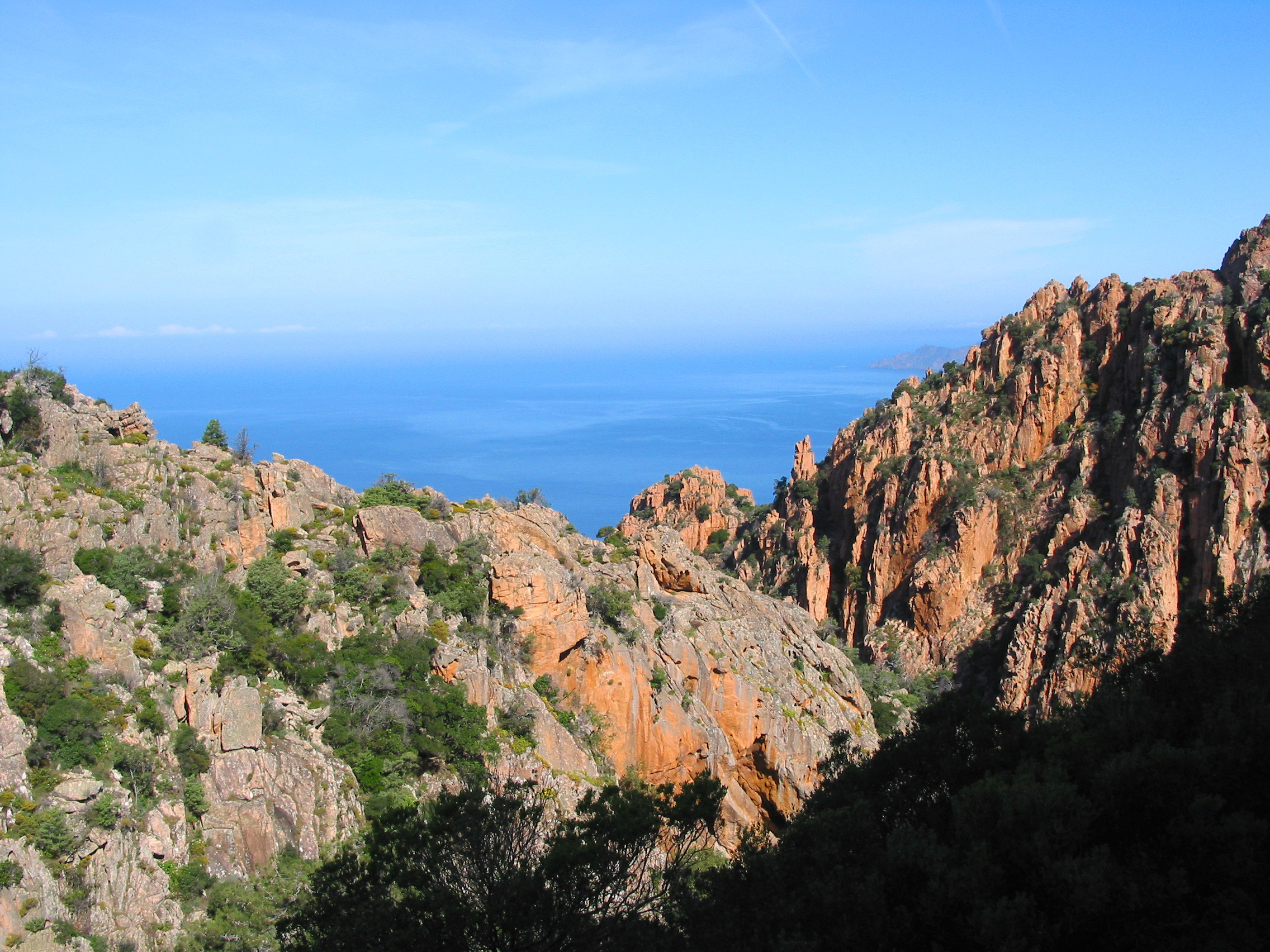 Piana (Corse-du-Sud) - France, the Calanches of Piana. Walon: Piana (Corse-do-Sud) - France, lès Calanches di Piana.